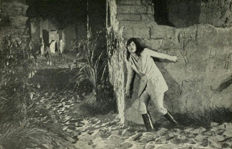 Still from the American film Burning Sands (1922) with Jacqueline Logan, facing page 322 of the 1922 edition of the novel.